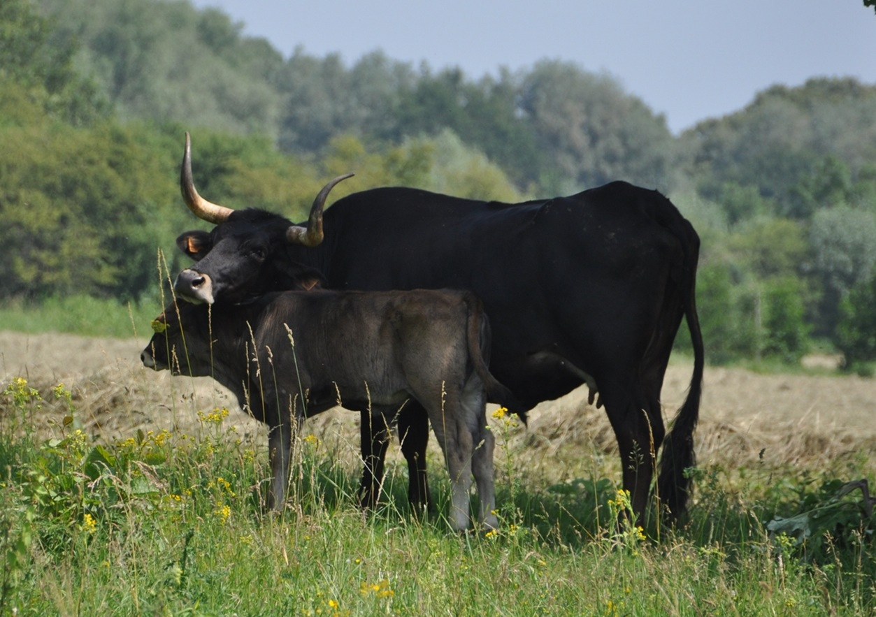 Sayaguesa in the Lippeaue nature reserve (SO-007)